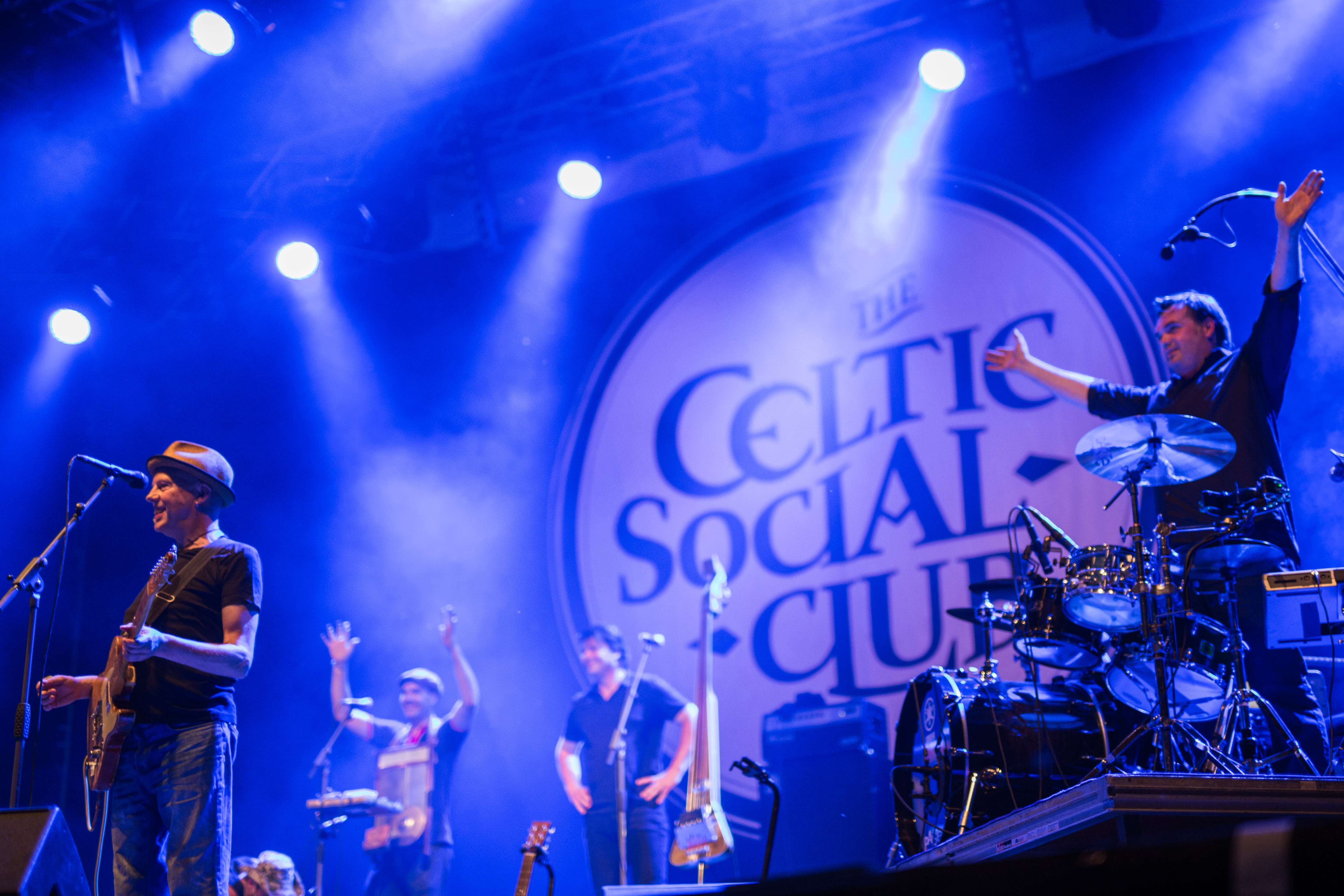 Celtic Social Club TTF.Rudolstadt 2015 Festivalsommer This photo was created with the support of donations to Wikimedia Deutschland in the context of the CPB project "Festival Summer".